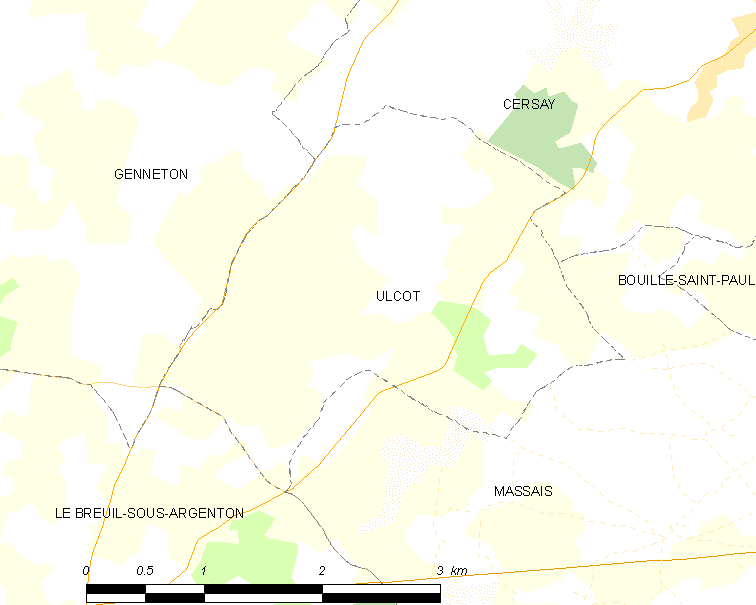 Map of French municipality Ulcot